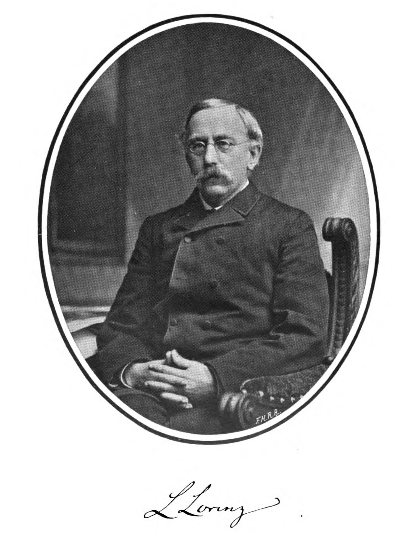 Portrait of Ludvig Valentin Lorenz taken from a book edited by H. Valentiner